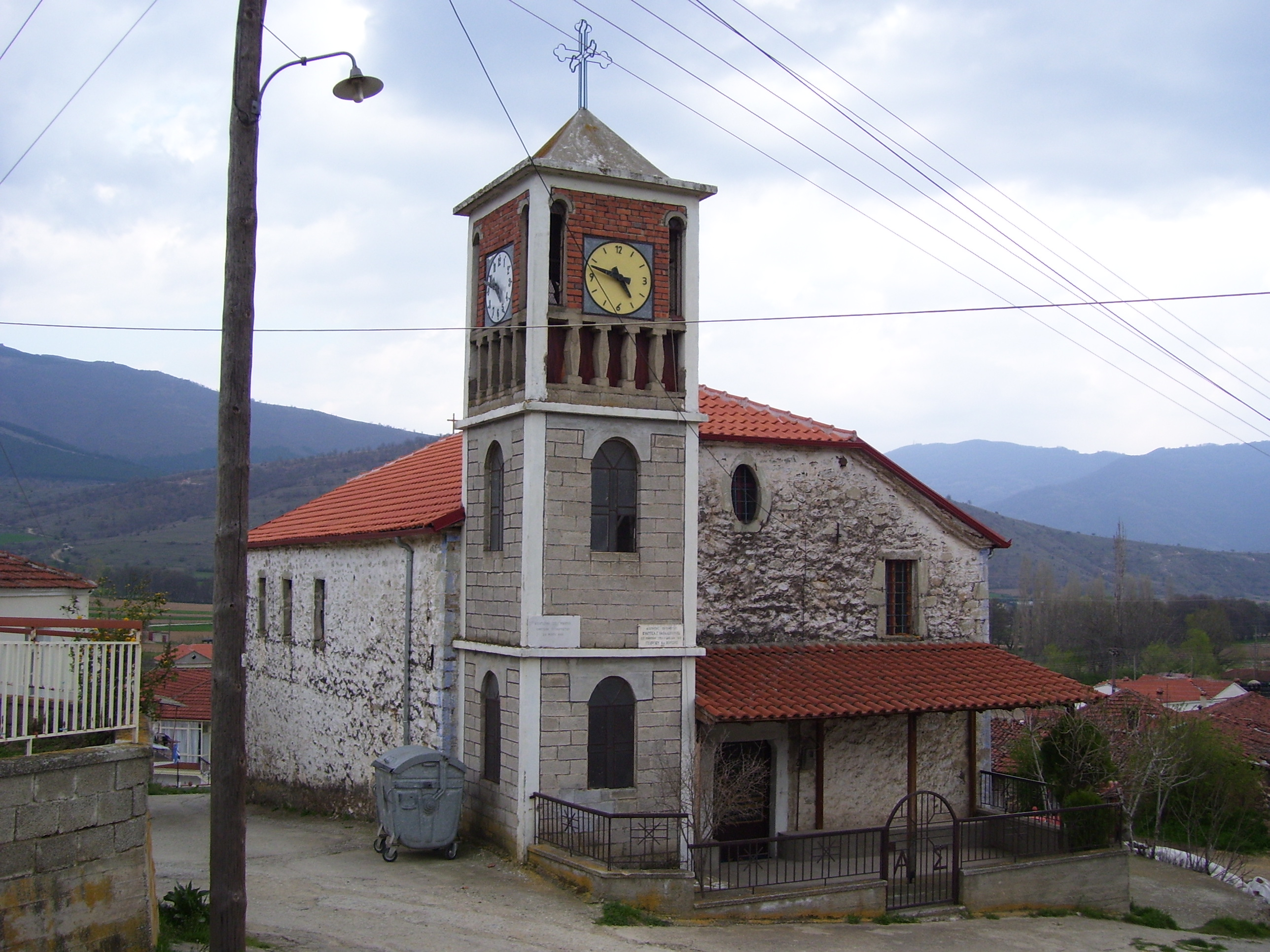 Church in the village of Melissotopos, Greece.